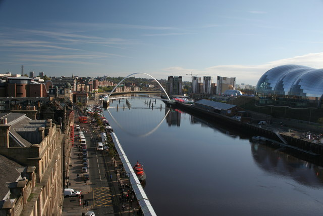 River Tyne View looking along Newcastle Quayside from the Tyne Bridge.